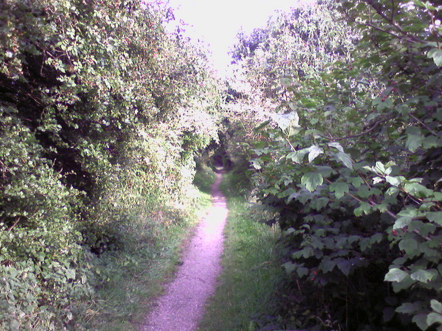 Trans Pennine Trail. This is the old Birley Collieries' branch railway line. The line served the Birley East and West collieries before being closed down in the 1950's. It also carried miners and their families on annual outings to the seaside. Today this trail can get you to Chesterfield, Leeds, York, Manchester, Southport on the west coast and Hornsea on the east coast.